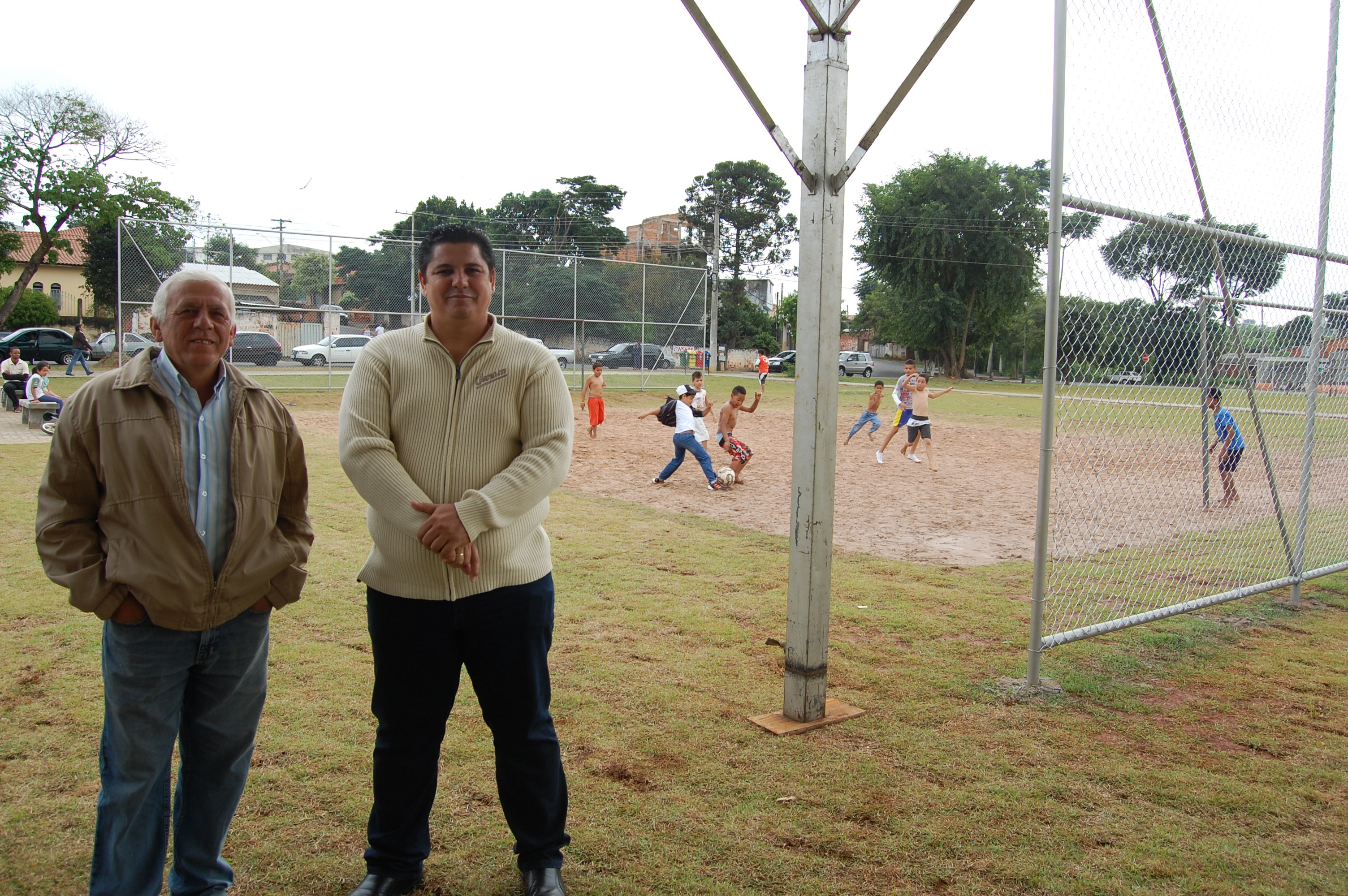 Soccer field in the Malta Square, in Hortolândia, São Paulo, Brazil.